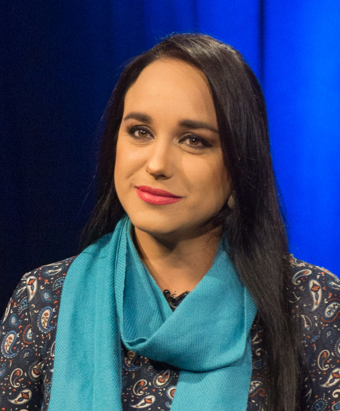 ACT MARCO ANTOM¿NIO BRAVO ENTREVISTA A GABRIELA RIVADENEIRA EN EL PROGRAMA EL OTRO LADO DE EN ECUADORTV FOTO MIGUEL JIMENEZ EL TELEGRAFO